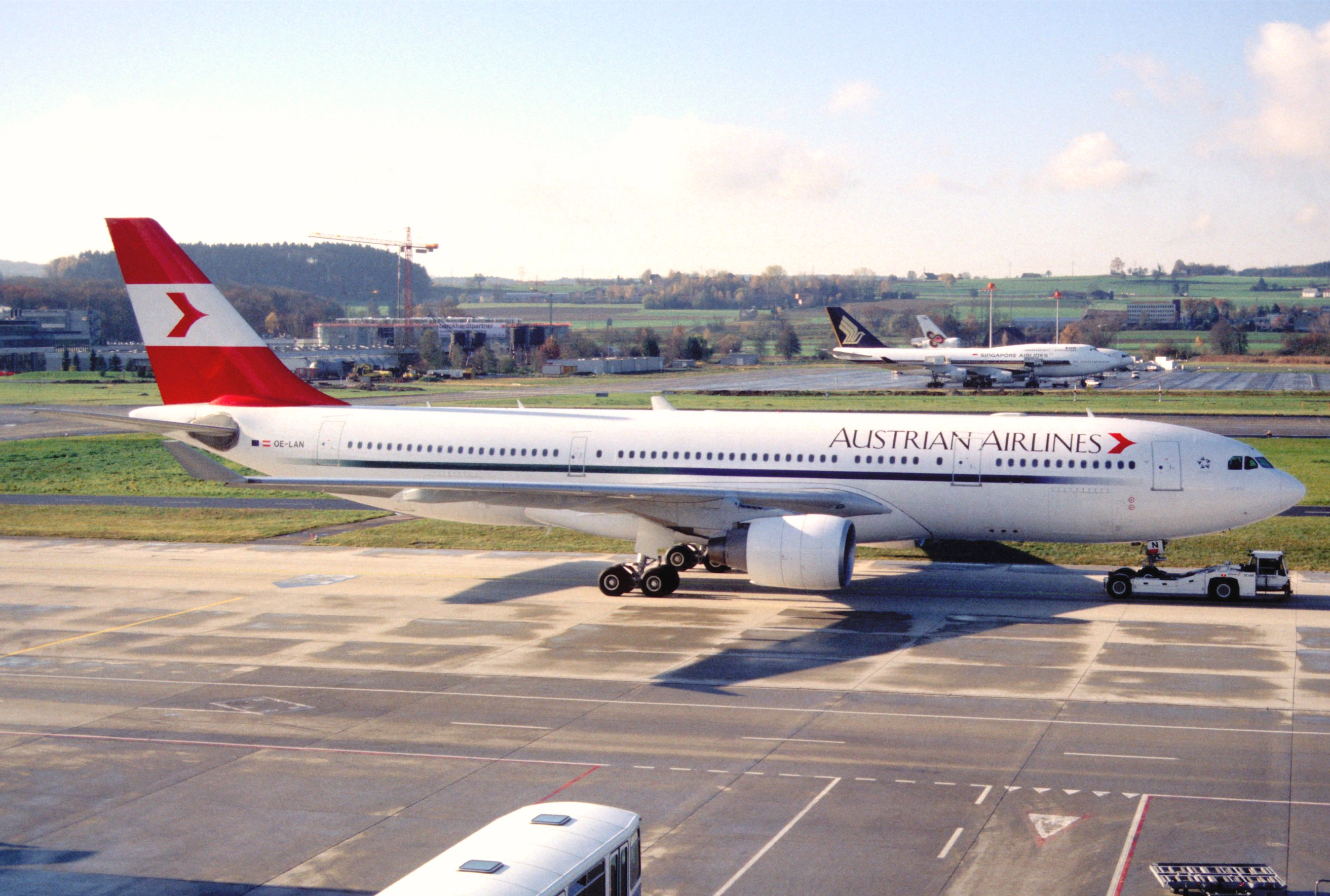 This Airbus A330 is the second A330-200 prototype...(c/n 195) First flight: December 4, 1997... 04/12/1997 Airbus Industrie 3B-NBD Prototype 330-200 #2 25/05/1999 Austrian Airlines OE-LAN 12/07/2007 TAP Air Portugal CS-TOI